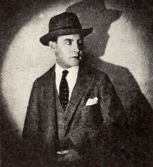 Promotional photo